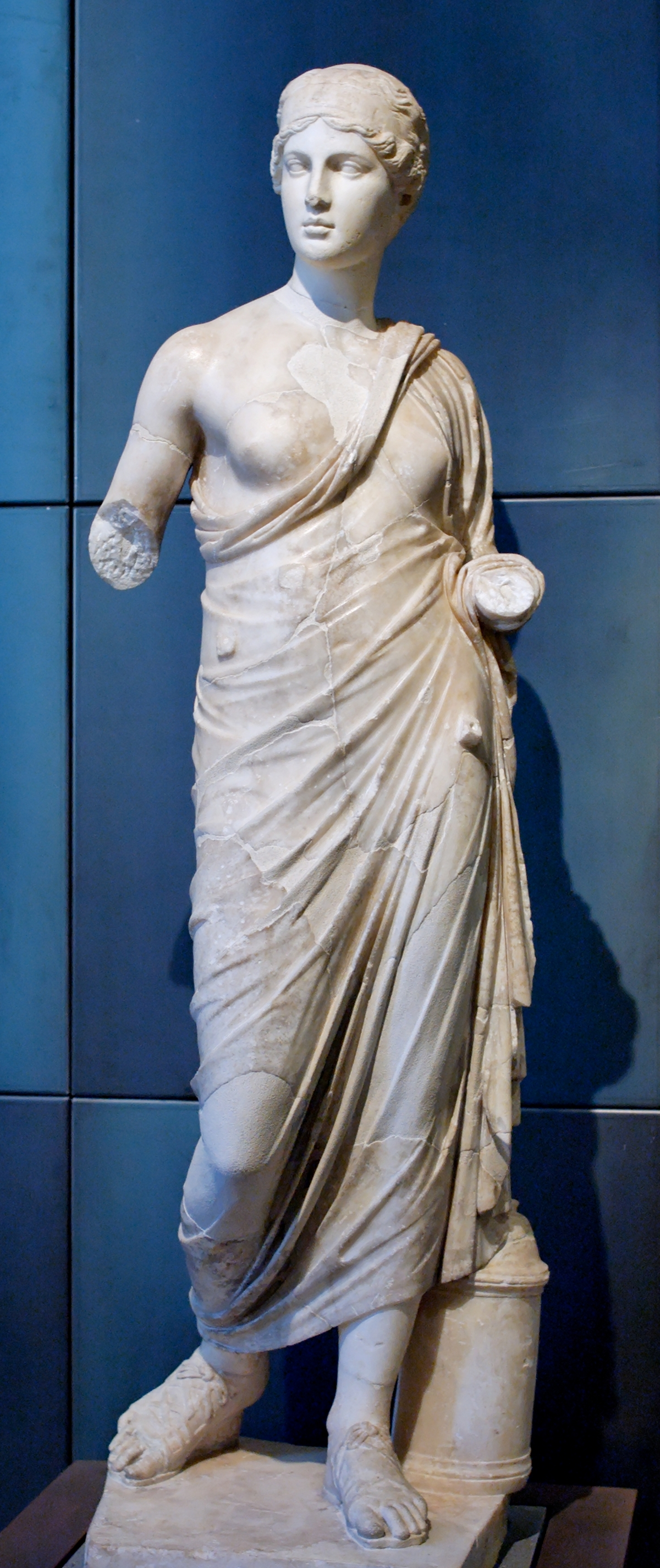 Statue of Hygeia. Roman copy after a Greek Hellenistic original.